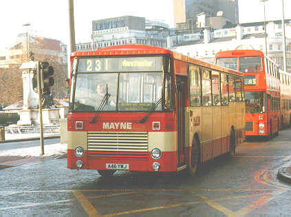 Dennis Falcon bus with Marshall bodywork, A46 YWJ, operated by Mayne in Manchester